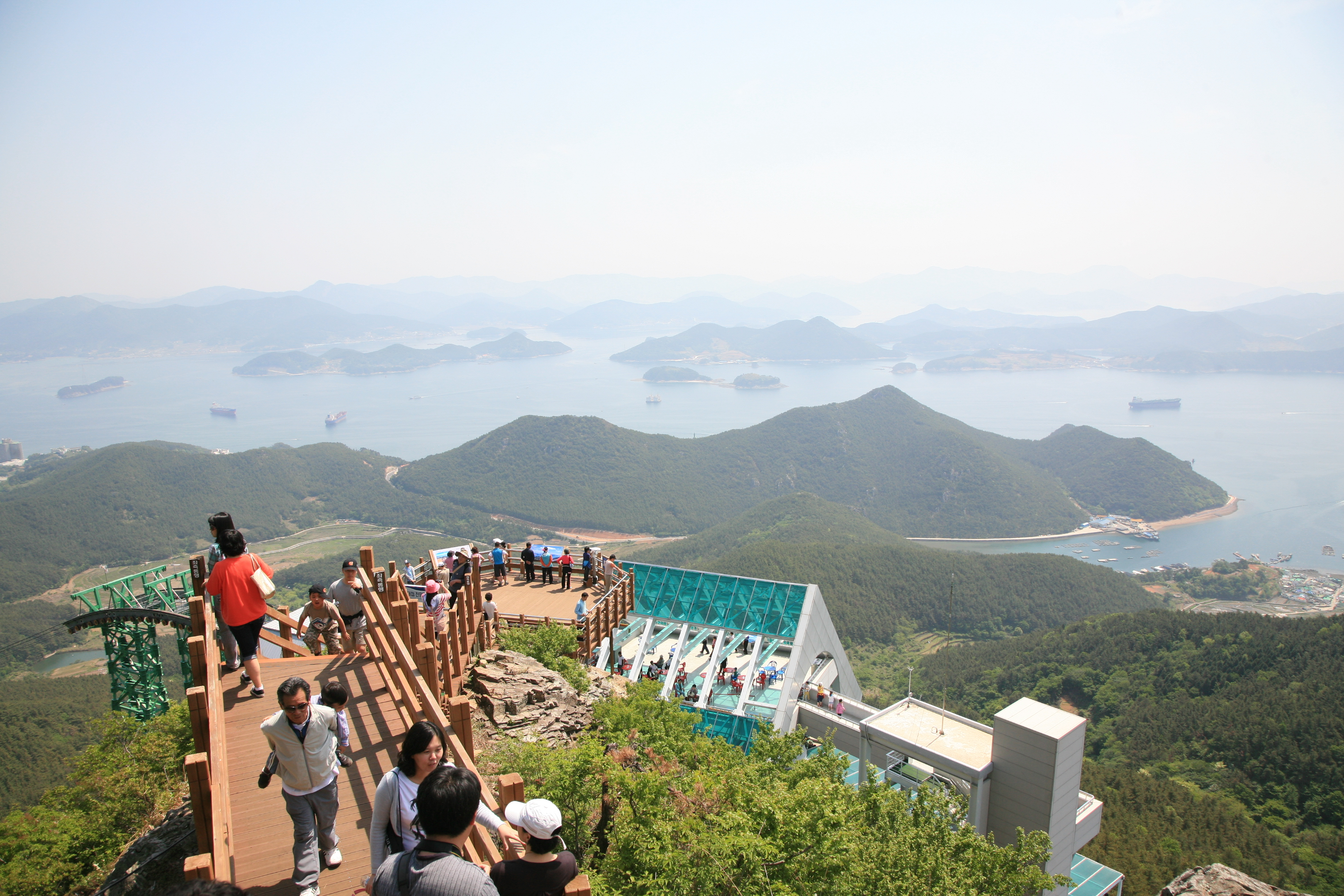 View of Hallyeo National Marine Park in Tongyeong, South Gyeongsang province, South Korea